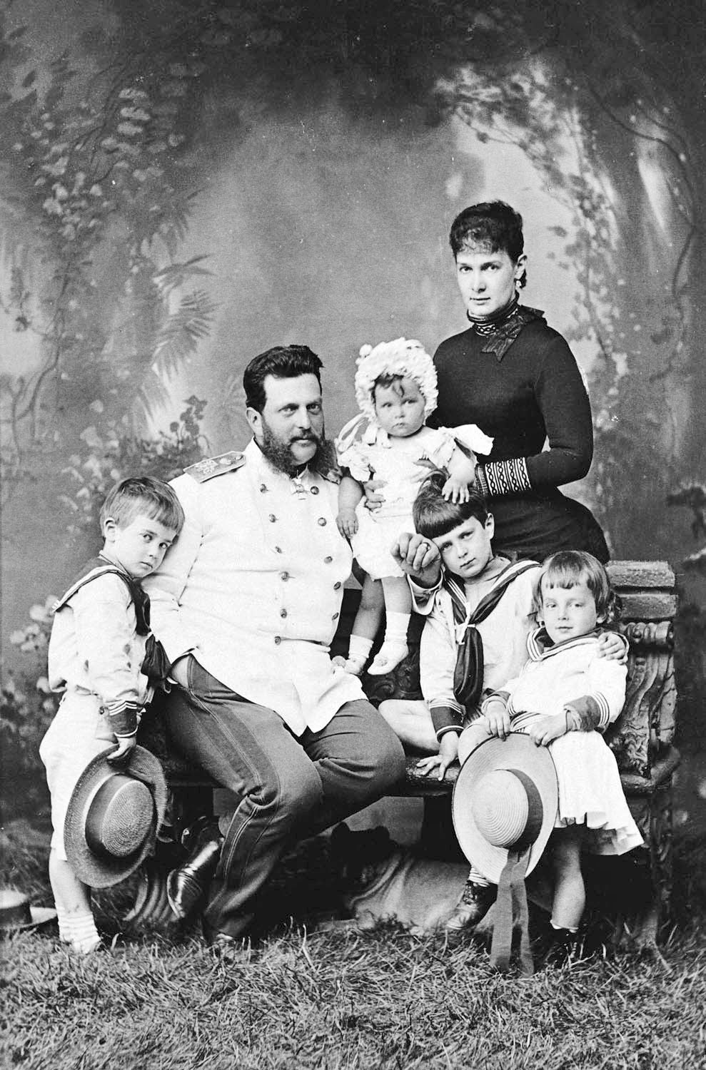 The Vladimirs. Grand Duke Vladimir Alexandrovich with his wife and children.